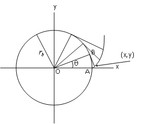 Base circle involute drawing